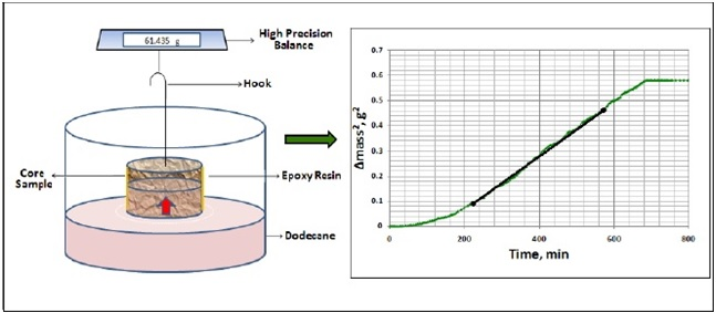 Figure 2. Rise In Core Experimental Procedure